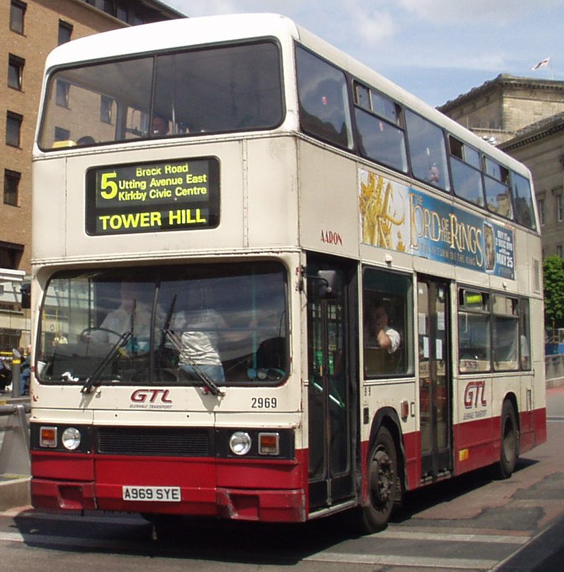 GTL (Glenvale Transport Limited) bus 2969 "Aaron" (reg. A969 SYE), a 1984 Leyland Titan (B15), pictured in Queen Square bus station, Liverpool. The 1,029th production Titan, it's from the later batch built at Leyland's expanded factory in the Lillyhall Industrial Estate in Workington (earlier ones were built by British Leyland subsidiary Park Royal Vehicles in Park Royal, London). As with the vast majority of production, it was delivered new to London Transport as part of the dual-door T-class, allocated fleet number T969. As part of the privatisation process it passed into the fleet of London Central in 1994. It was withdrawn from London service in May 2001, passing to dealer Ensignbus. After 3 months it was aquired by GTL and renumbered 2969. It remained in GTL ownership until their takeover by Stagecoach in July 2005, becoming Stagecoach Merseyside's No. 10969. By November it had been sold to Blue Triangle, who passed it on after just 5 months, and is possibly now operating as a promotional bus for Ezra Events in Taunton.